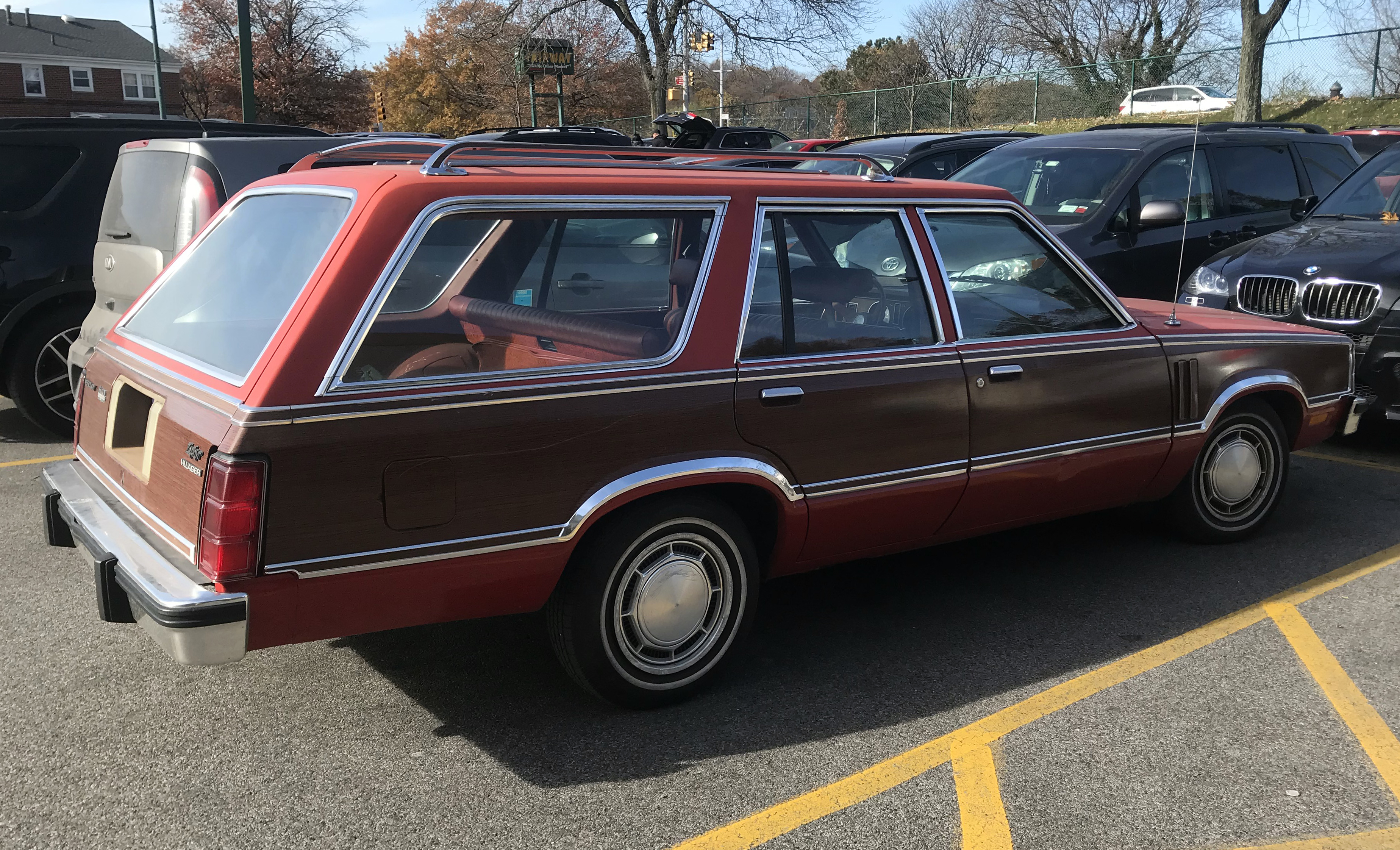 A 1978 Mercury Zephyr Villager with the single-barrel 200ci inline-six, built in St. Thomas, Ontario.